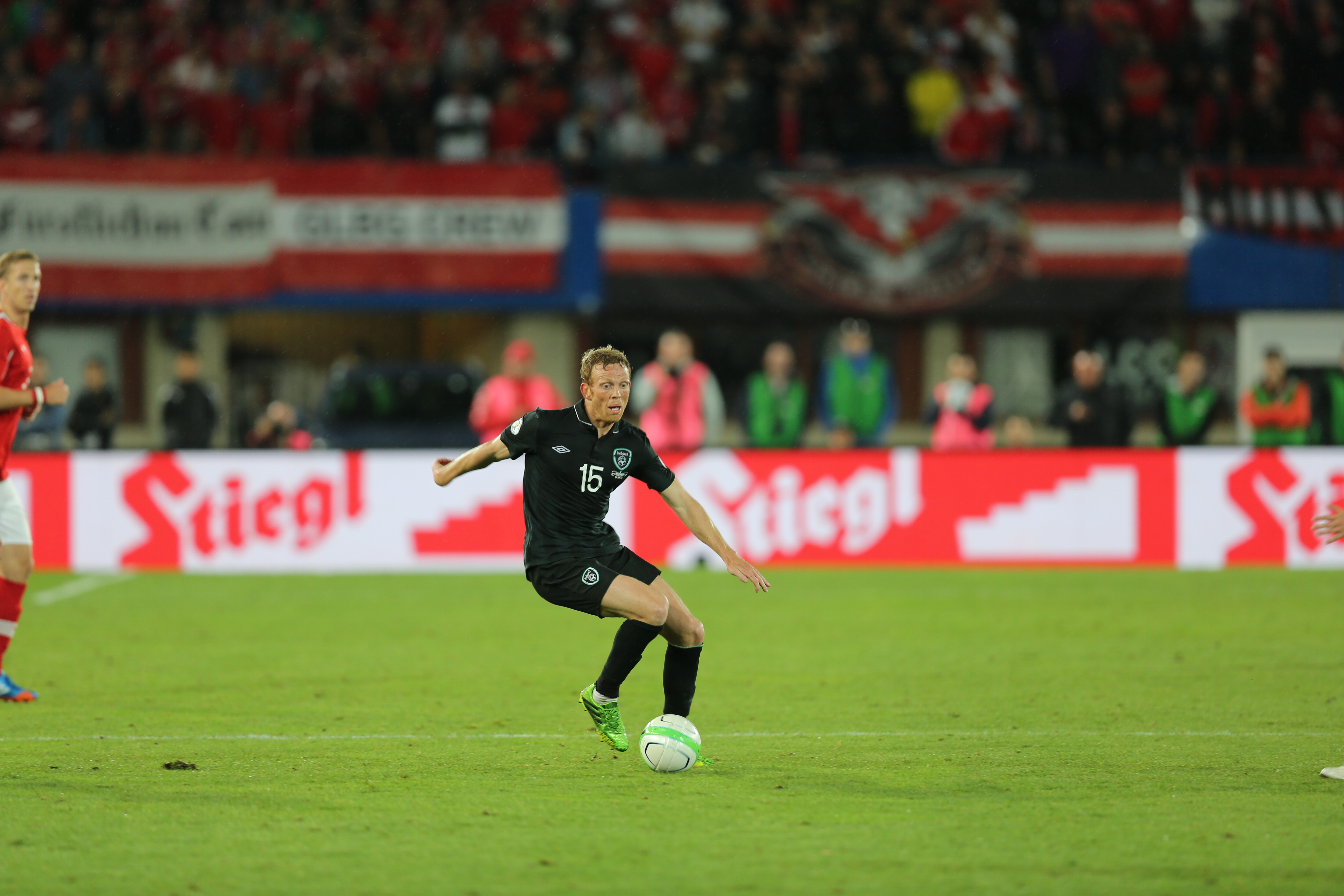 2014 FIFA World Cup qualification (UEFA), Group C: Republic of Ireland national football team at 10. September 2013 before the match against the Austria national football team (0:1) in the Ernst-Happel-Stadion in Vienna. Here:Paul Green, Irish midfielder. The making of this work was supported by Wikimedia Austria. For other files made with the support of Wikimedia Austria, please see the category Supported by Wikimedia Österreich.